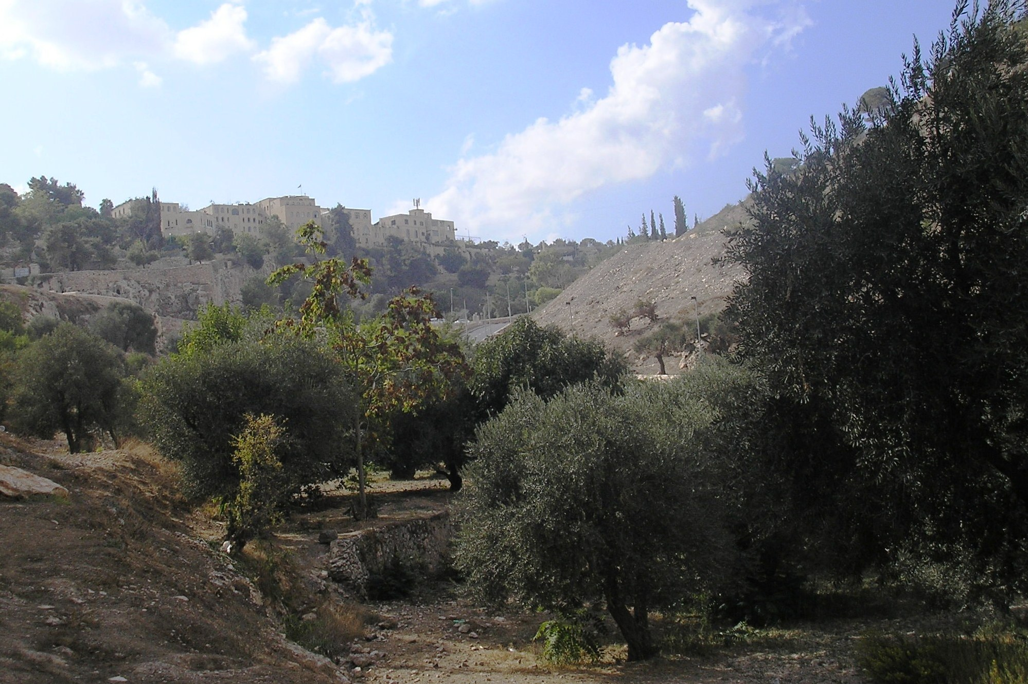 Valley of Hinom